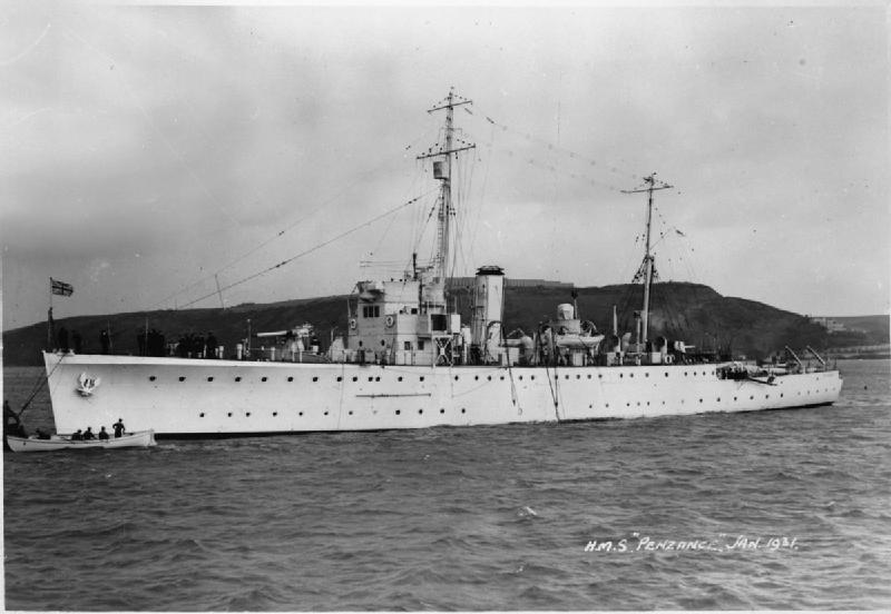 HMS Penzance At a buoy.